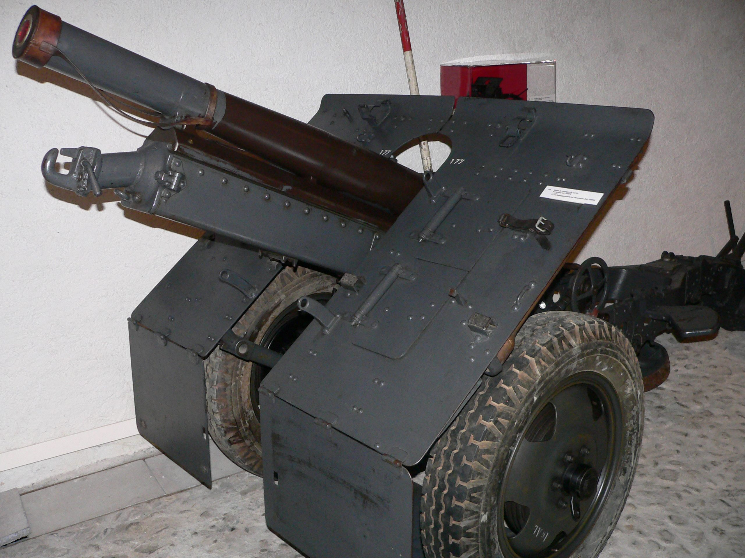 75 mm Bofors mountain gun M1933 modernized for mechanical towing in 1948